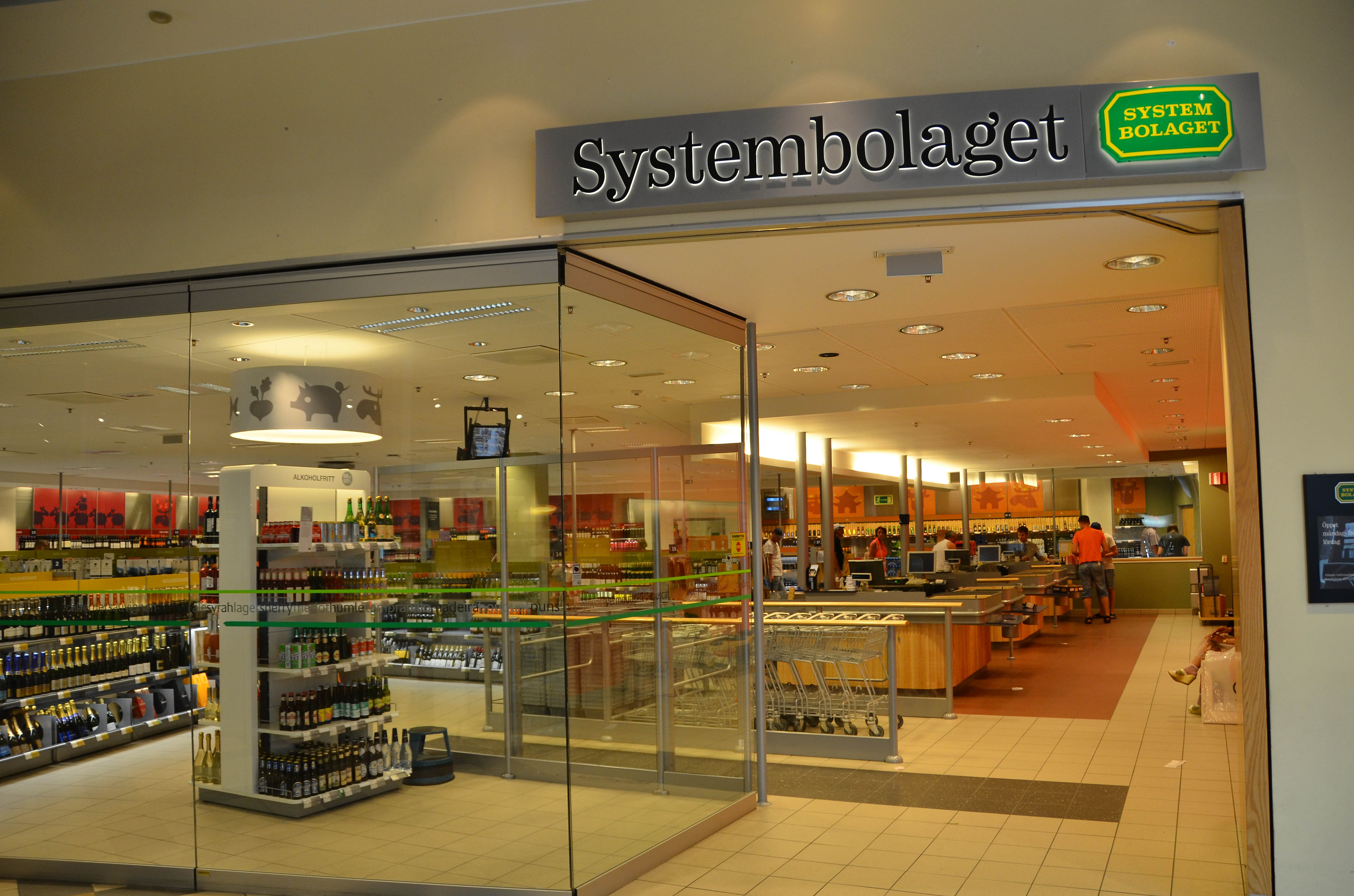 Systembolaget in Citykompaniet, a shopping mall in Skellefteå, Sweden.